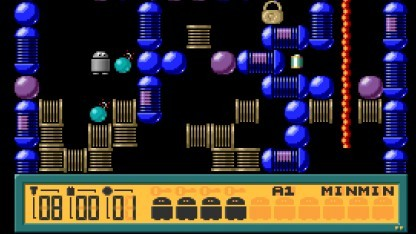 screenshot of Robbo. Was released under CC BY SA 2.5 in 2006 by the author. (